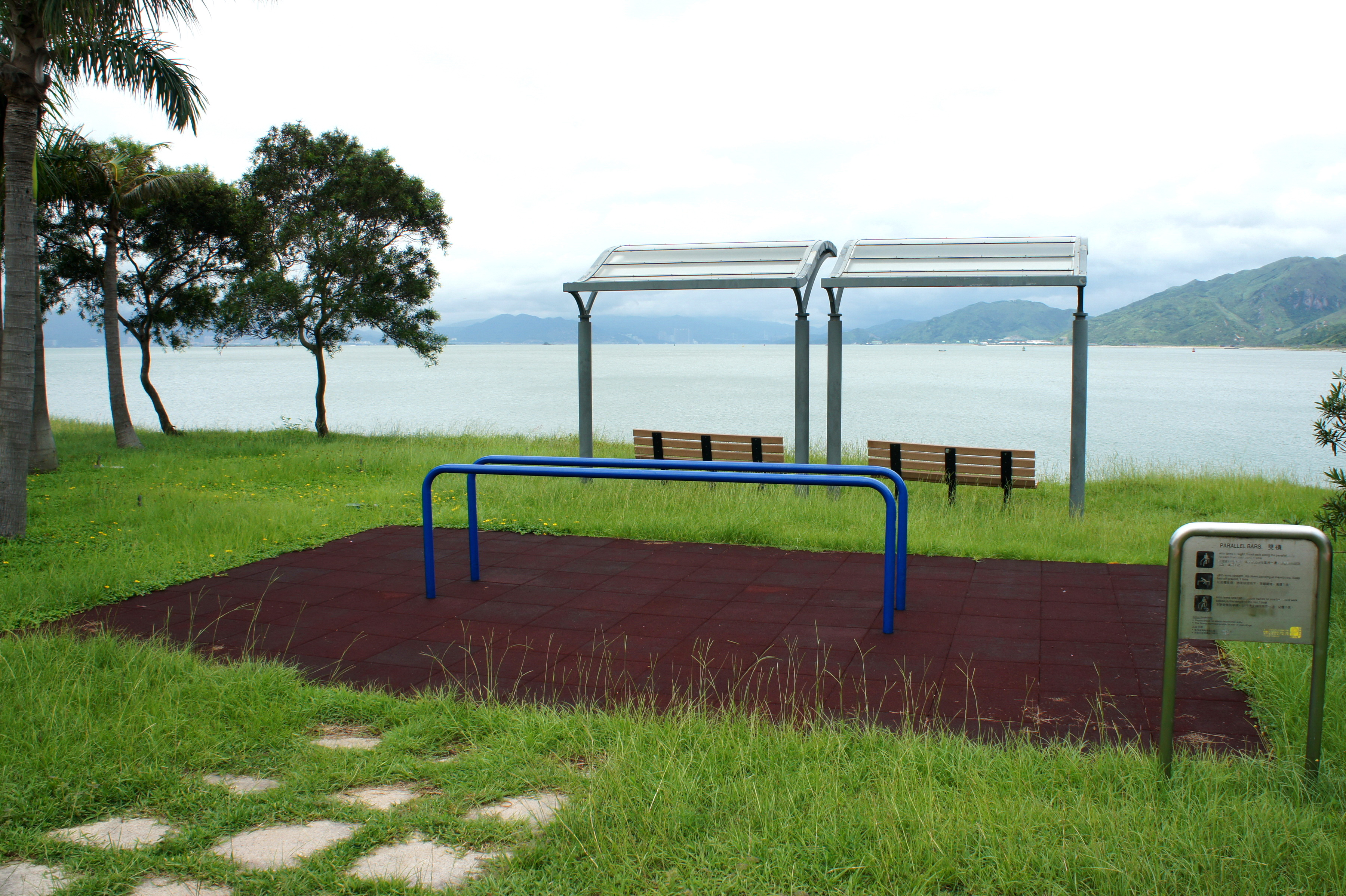 Exercise facility and benches on Kwo Lo Wan Road, Chek Lap Kok, Hong Kong.